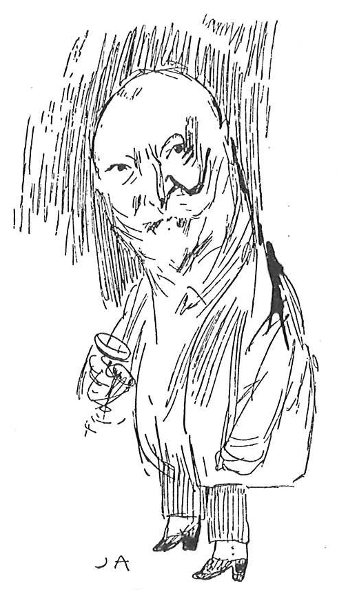 Georg Lundström (1838-1910), Swedish magazine editor and humorist, known by his signature "Jörgen".